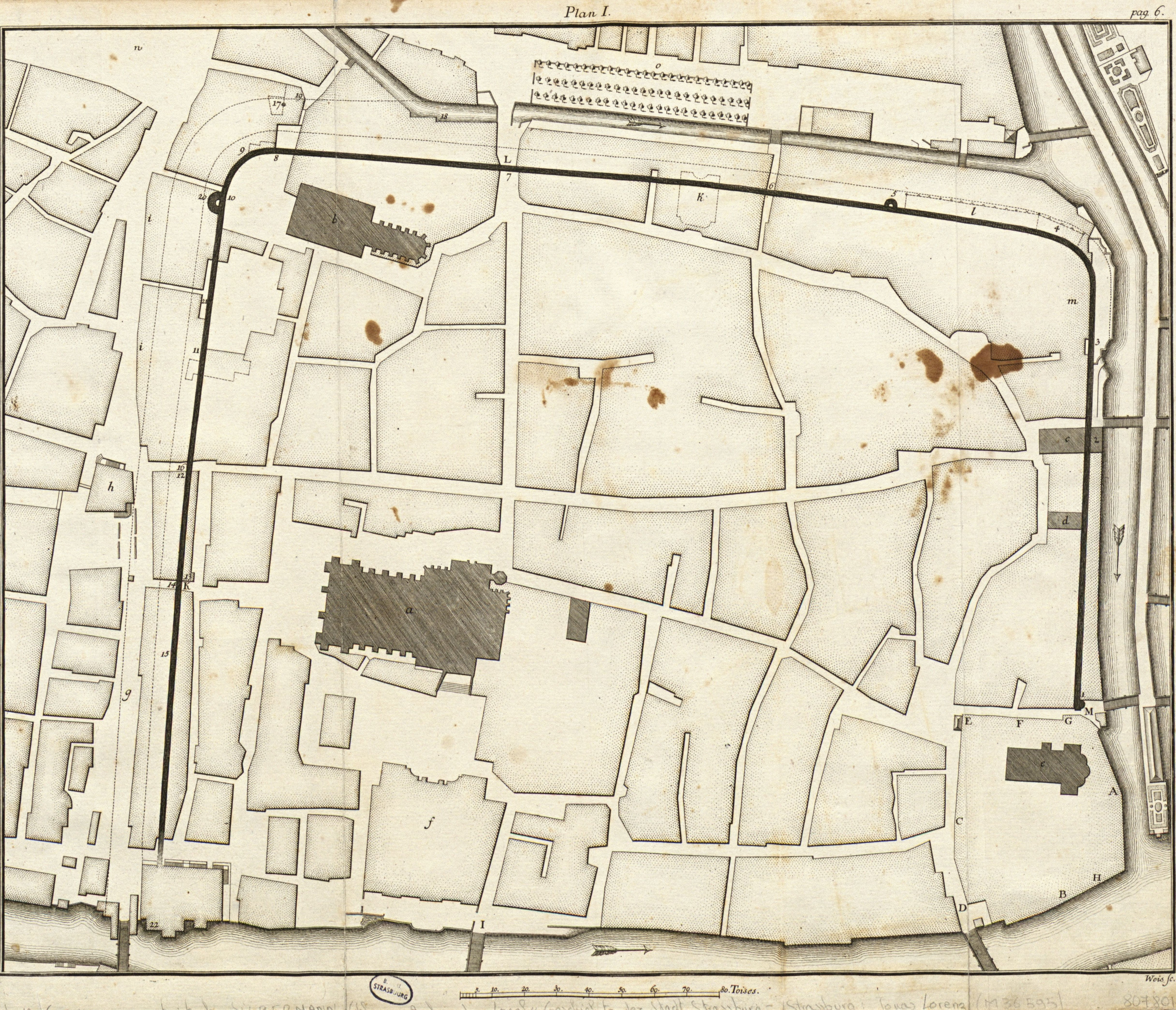 Map of the walls and towers of the Roman town of Argentoratum with the drawing of the streets today and the place of the cathedral